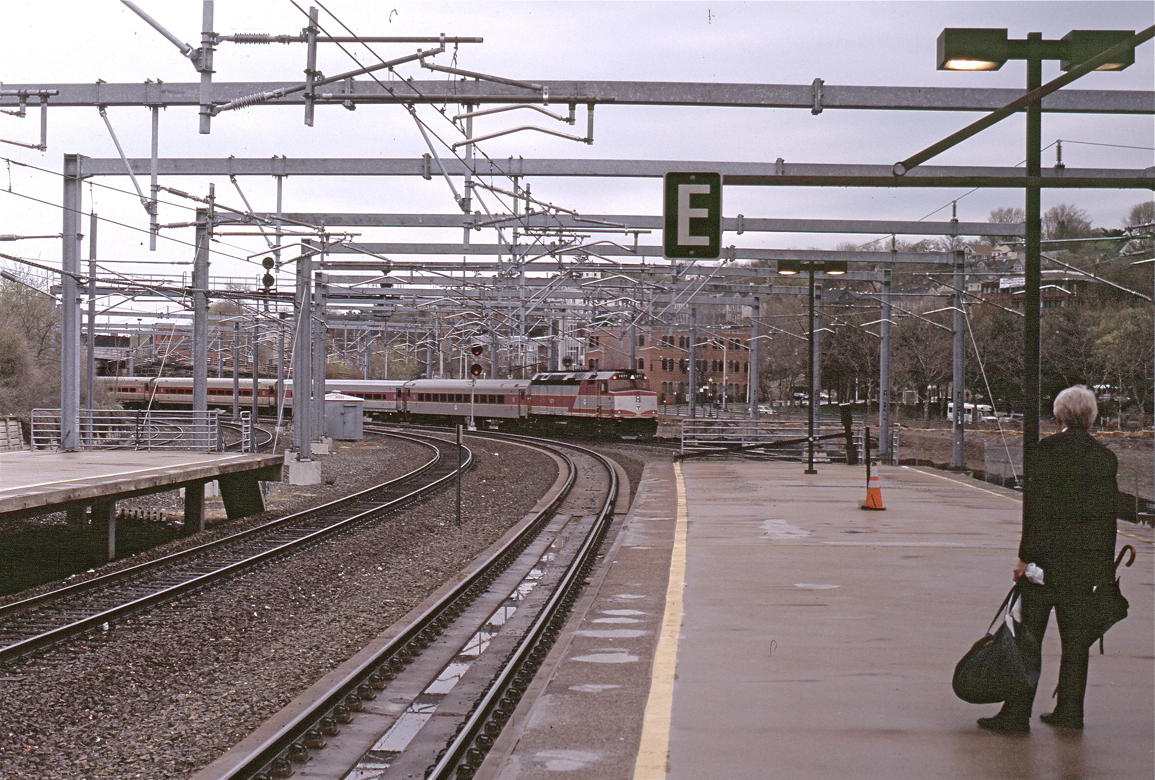 Providence railway station